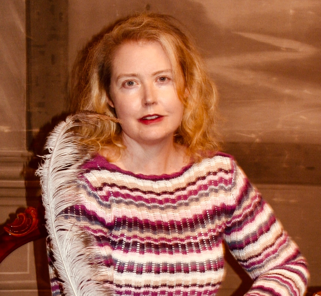 Petronella Simonsbacka is an author from Sweden